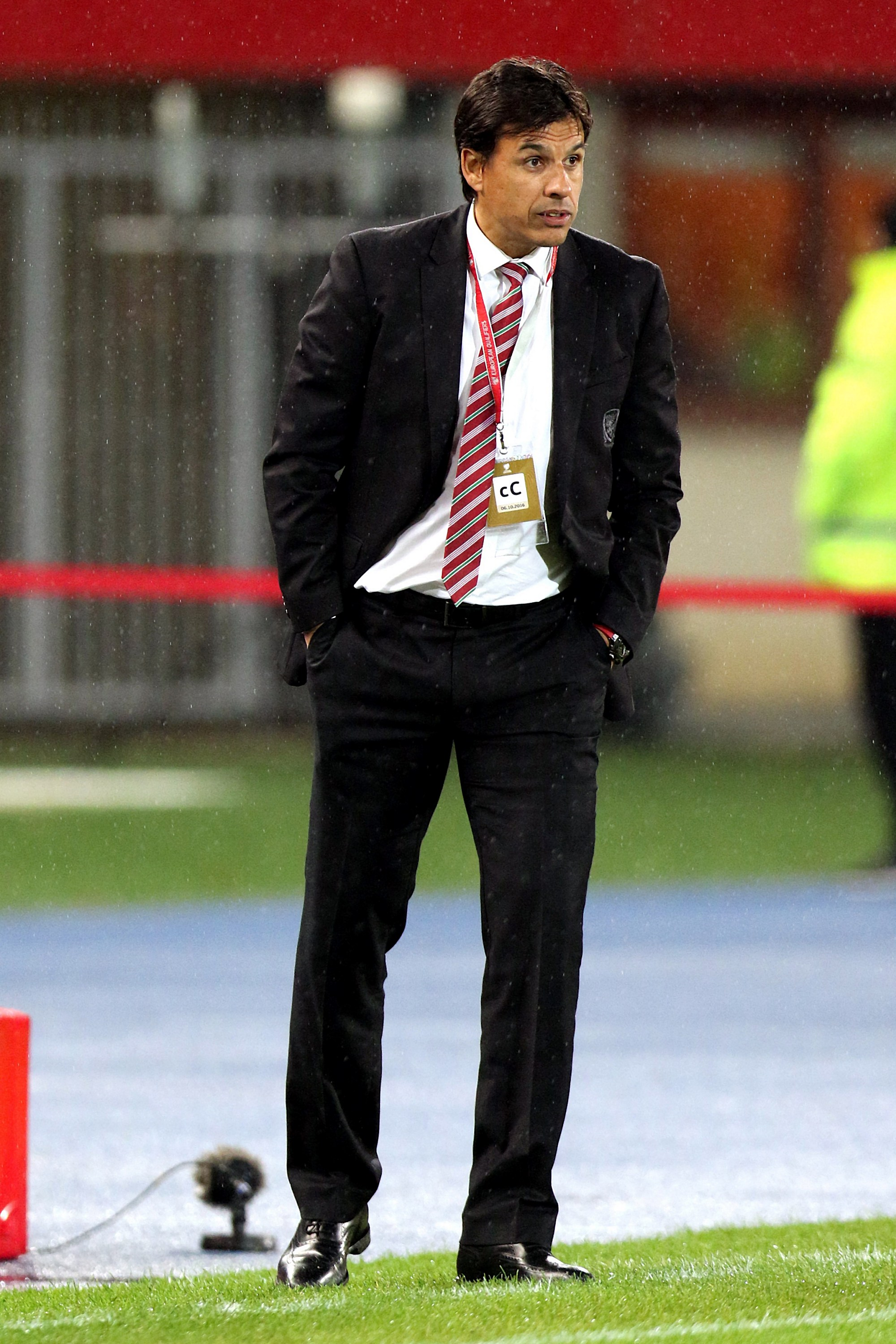 2018 FIFA World Cup qualification – UEFA Group D) – Austria (red shirts) vs. Wales (white shirts) 2-2 (1-2) – 2016-10-06 in Vienna, Ernst-Happel-Stadion – The photo shows teamchef Chris Coleman (Wales).